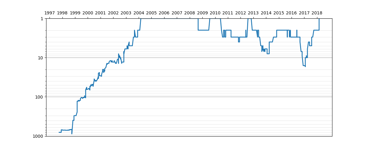 Roger Federer's ATP ranking history through is return to #1 in 2018